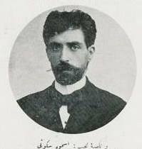 İshak Sükuti, founder of the Committee of Union and Progress